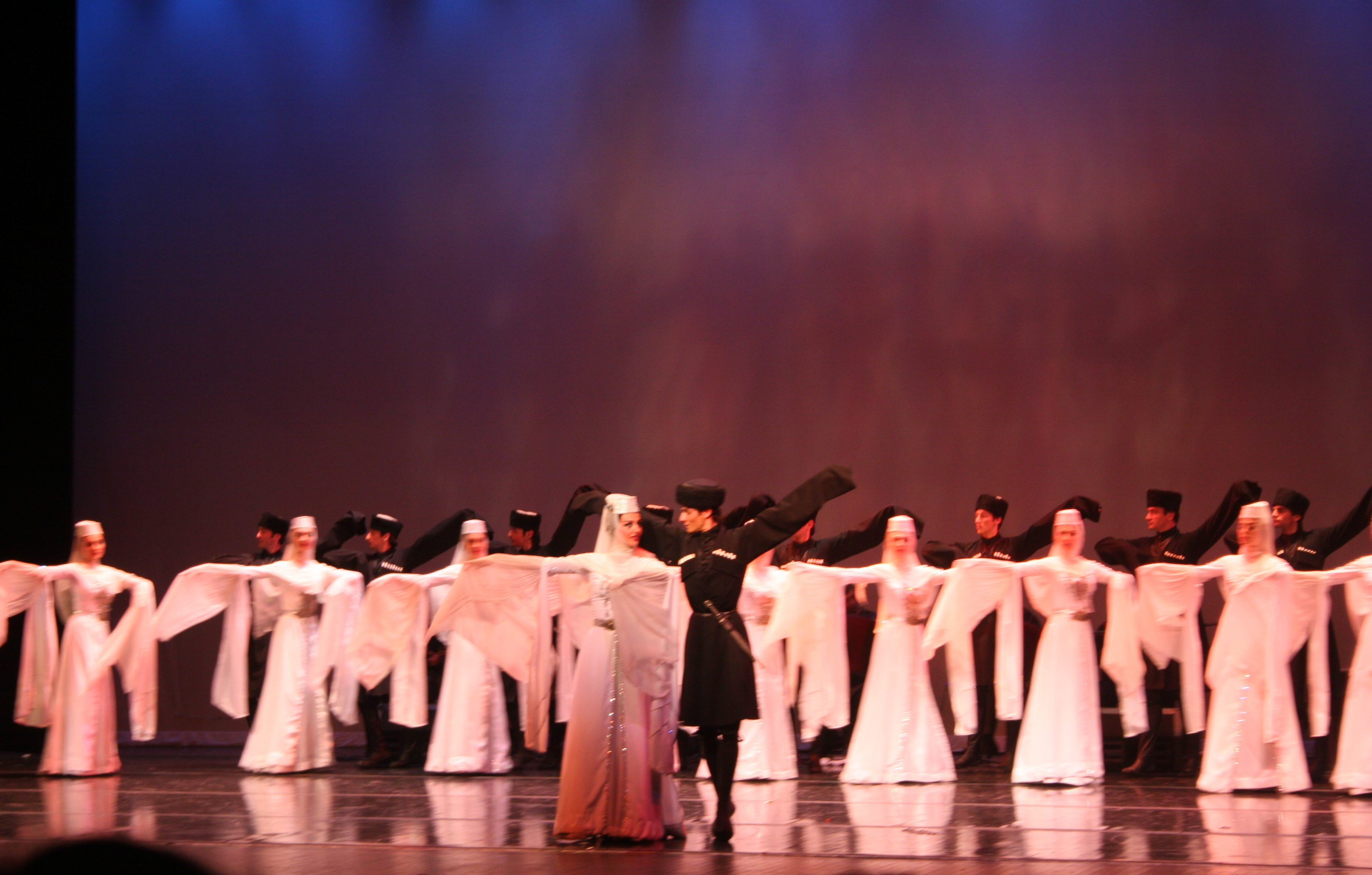 Georgian Folk dance "Simdi" (Ossetian Folk dance "Simd"), performed by Sukhishvili Ensemble